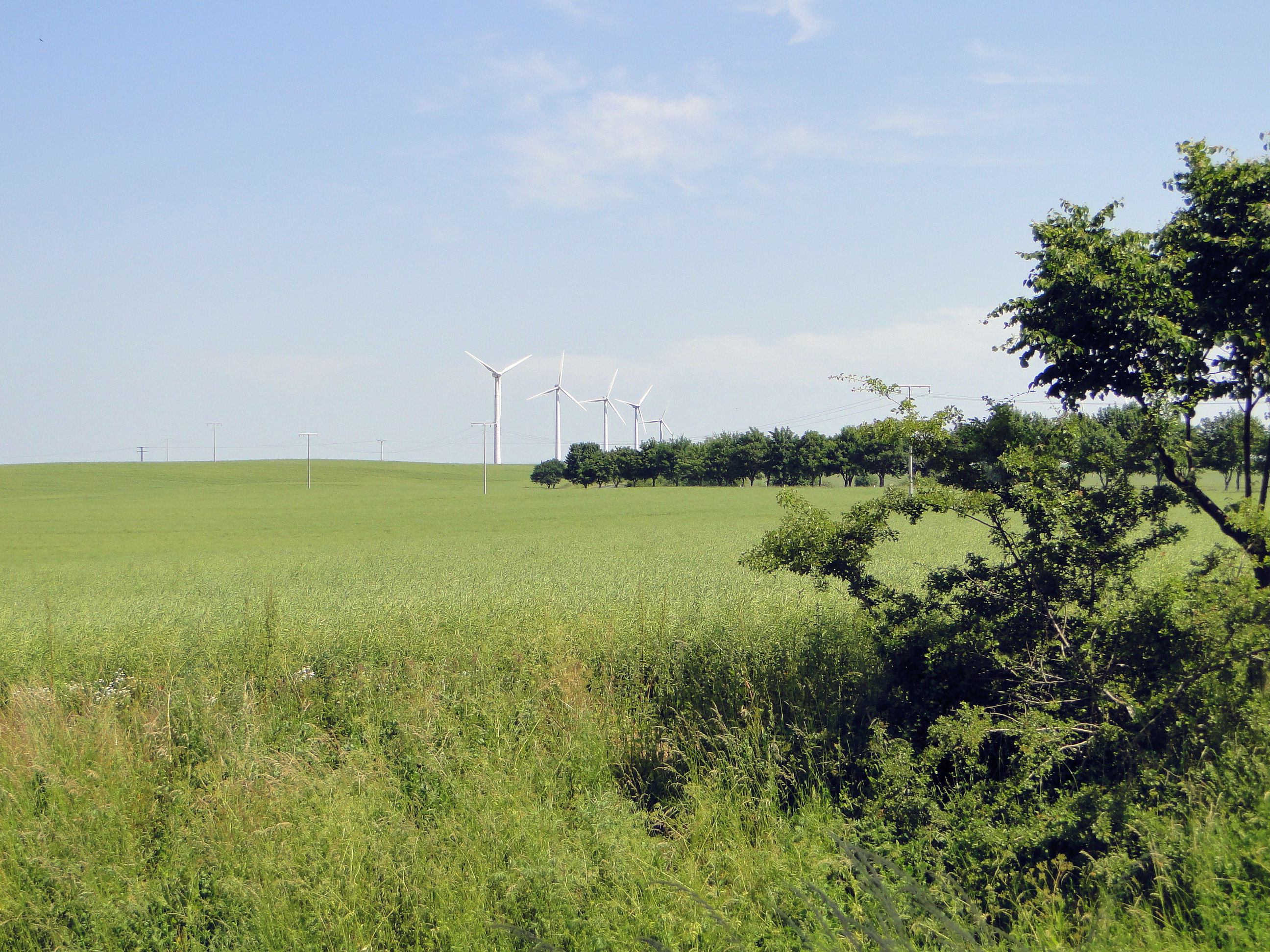 View to wind turbines in Nienmark, district Nordwestmecklenburg, Mecklenburg-Vorpommern, Germany